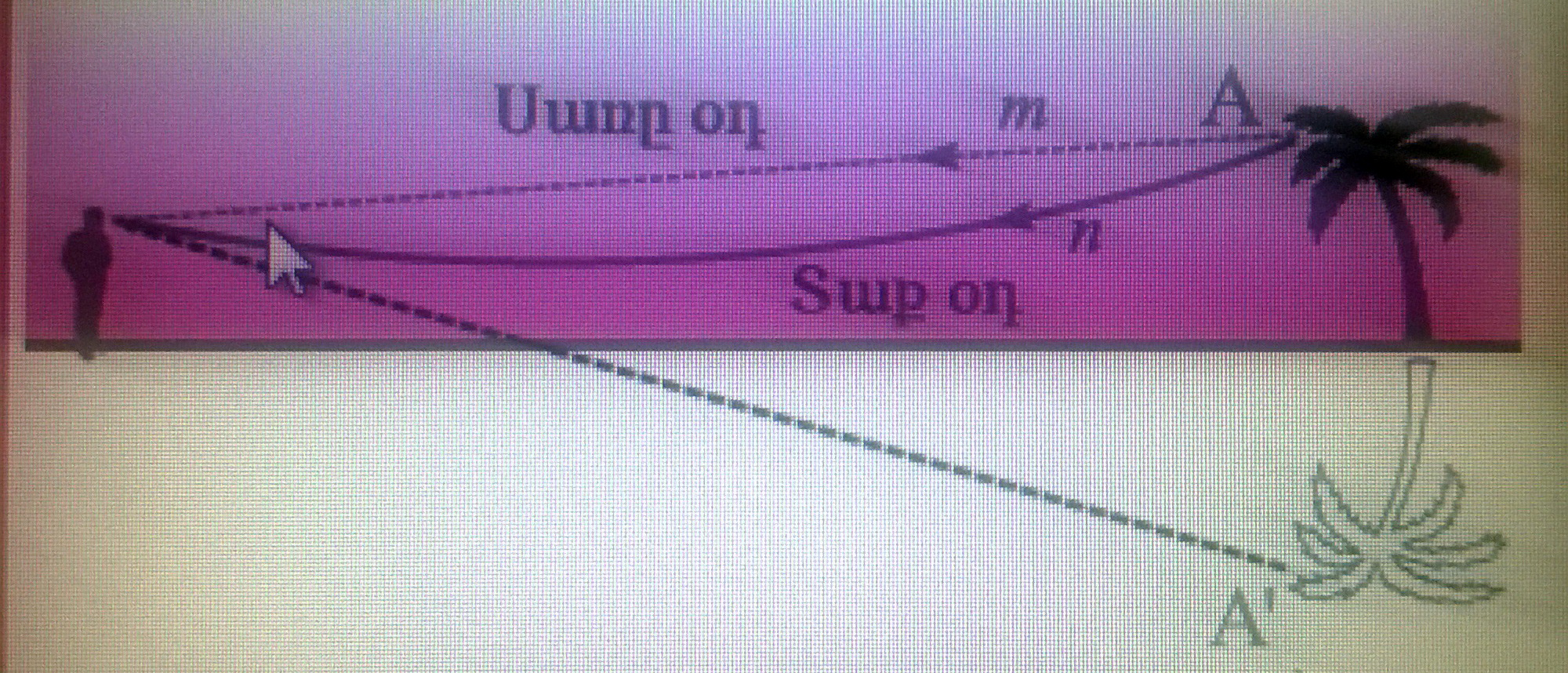 Мираж